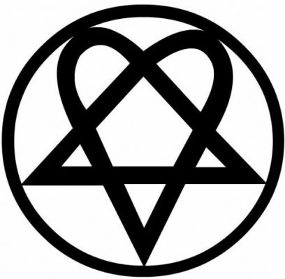 Heartagram, logo of HIM (Finnish band); registration refused by the US Copyright Office, upheld on appeal (source)